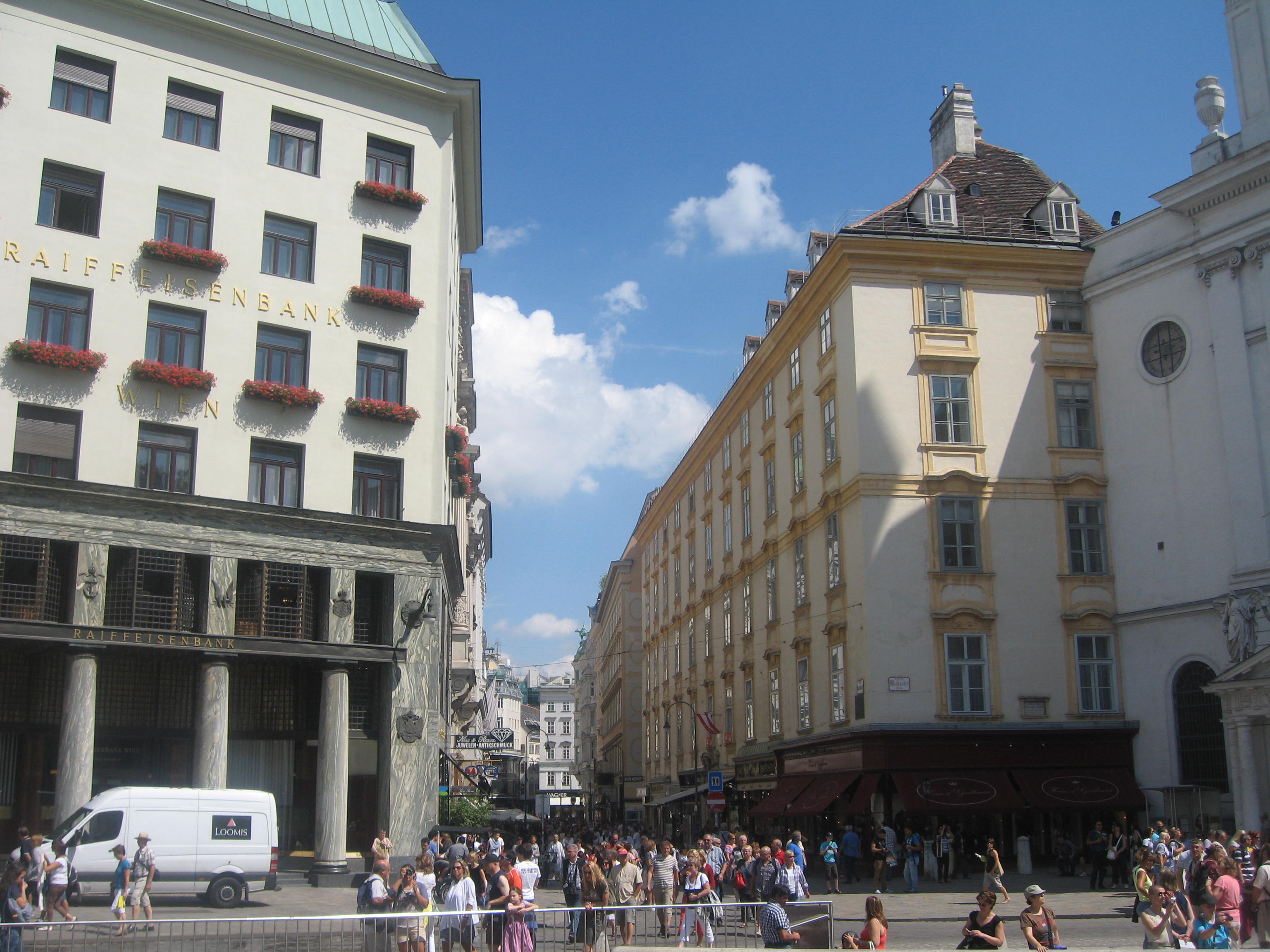 Kohlmarkt, Vienna